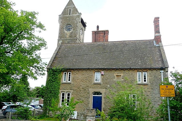 Stratfield Mortimer school. One of two main buildings of St. Mary's school, which is on The Street near the church of the same name. The other is here 1315407